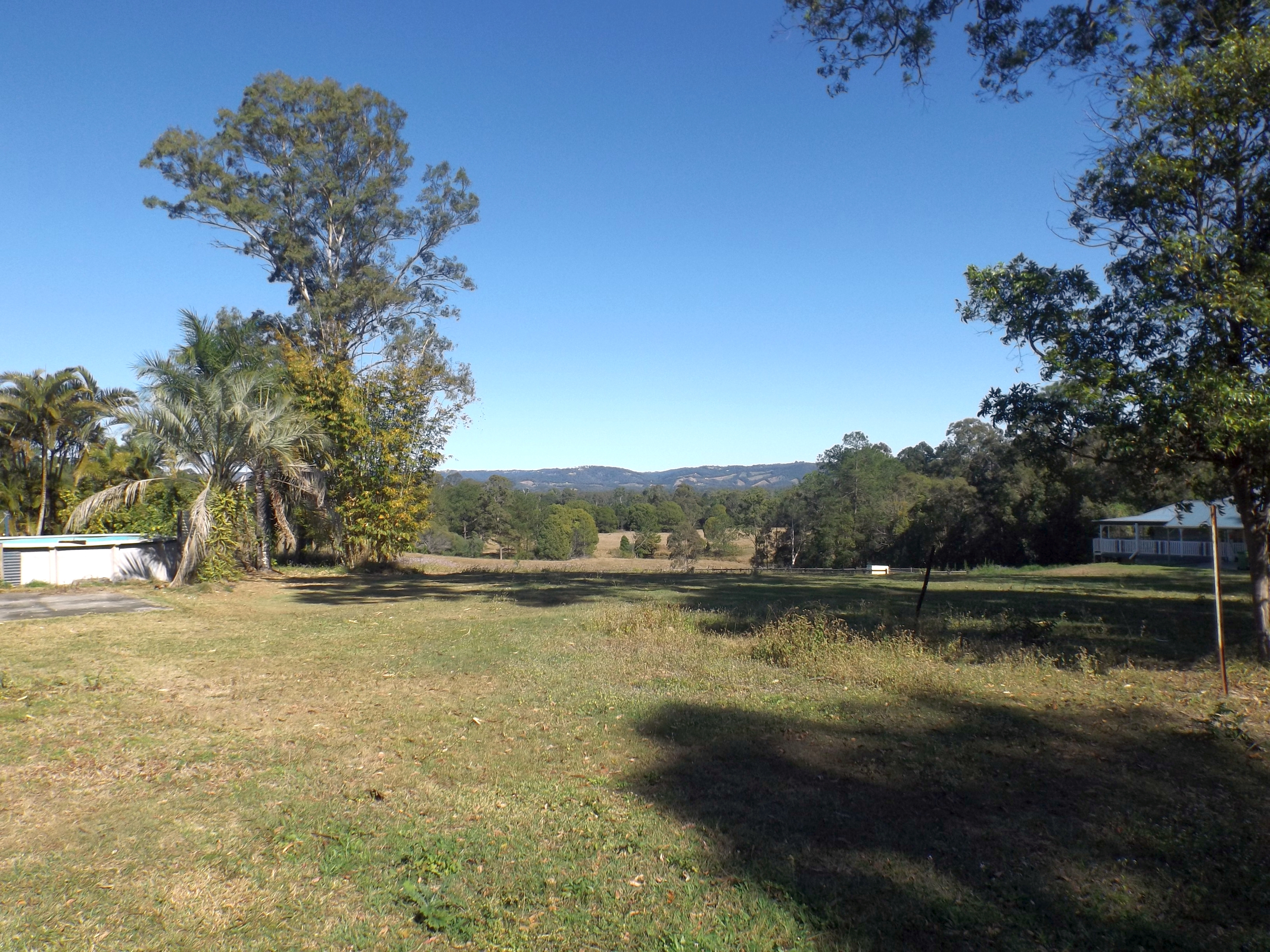 Photo of Quarry Road at Moodlu, Moreton Bay Region, Queensland, Australia.